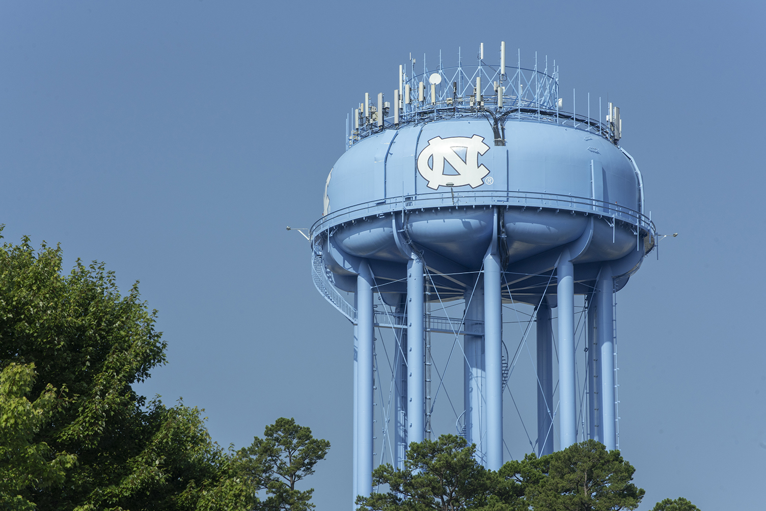 A water tower with the logo of UNC Chapel Hill